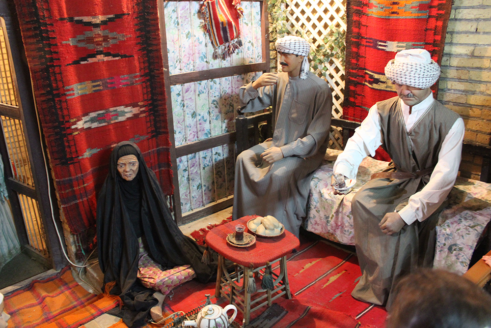 المتحف البغدادي